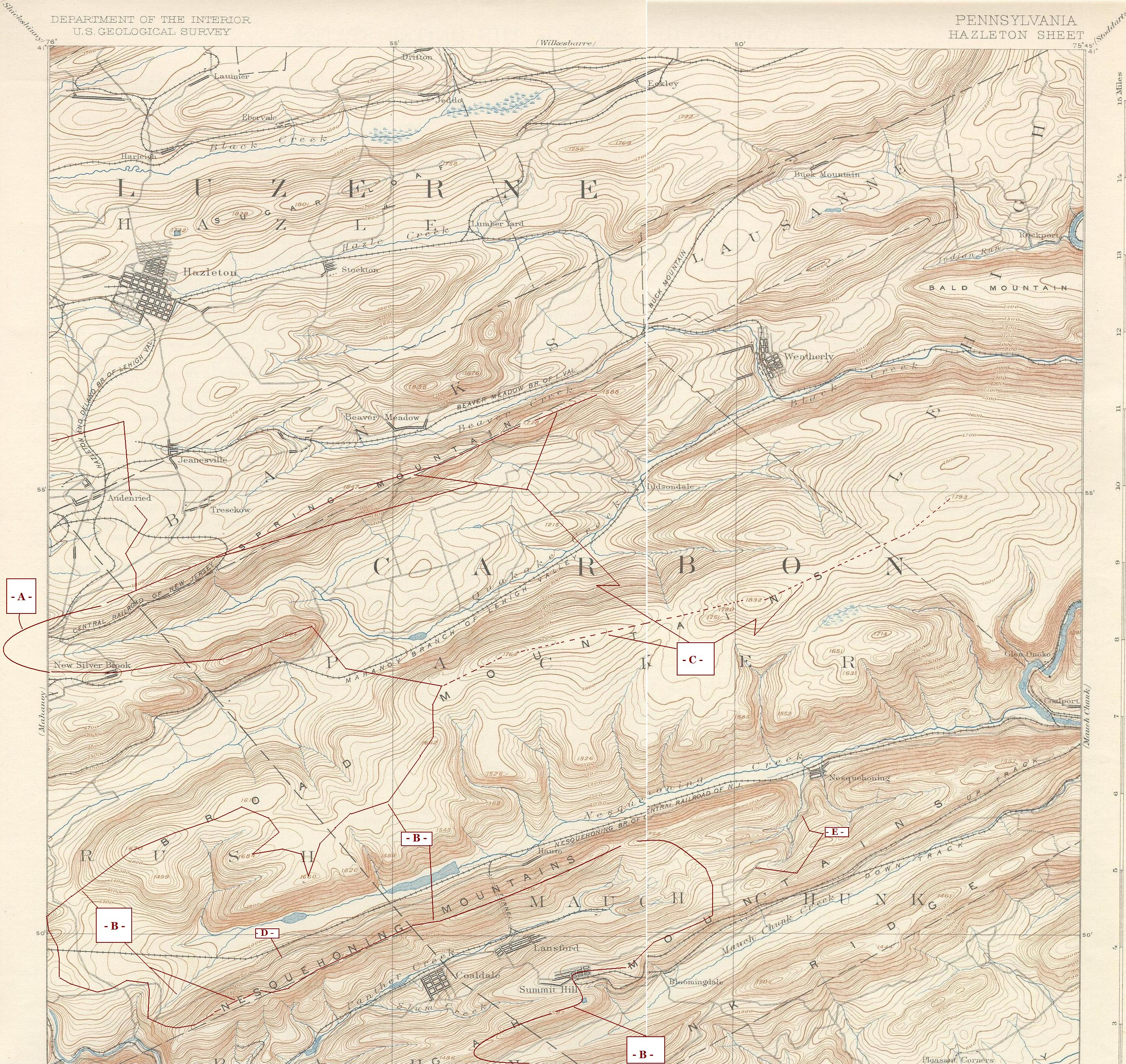 This is a sufficiently detailed derivative work of two 19th Century USGS maps as reprinted in the 1930s with annotations showing Watersheds (by any cultural definition). • The map is centered on the three parallel ridges that run SW-to-NE but pinch down and converge into a steep valley along the Lehigh Valley in the stretch (N+W-to-S+E) Nesquehoning, Jim Thorpe (formerly Mauch Chunk, and Lehighton in the middle Lehigh Valley. • That is showing several topological Geological features, mainly Major and Minor Drainage Divides and parts of Drainage Basins.